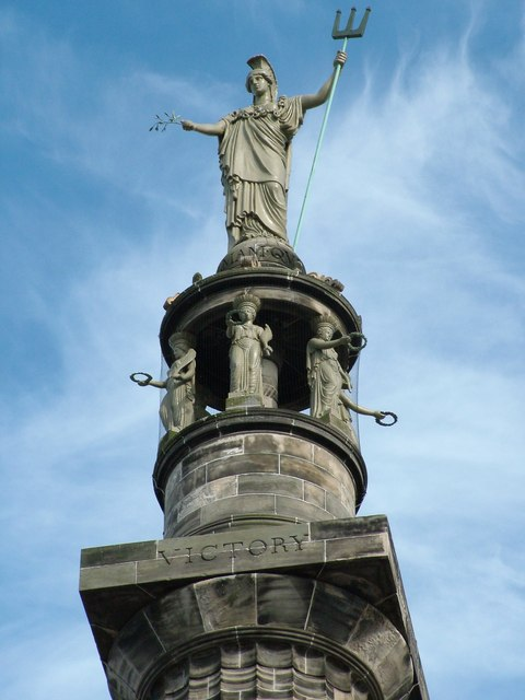 Britannia at the top of Nelson's monument in Great Yarmouth.